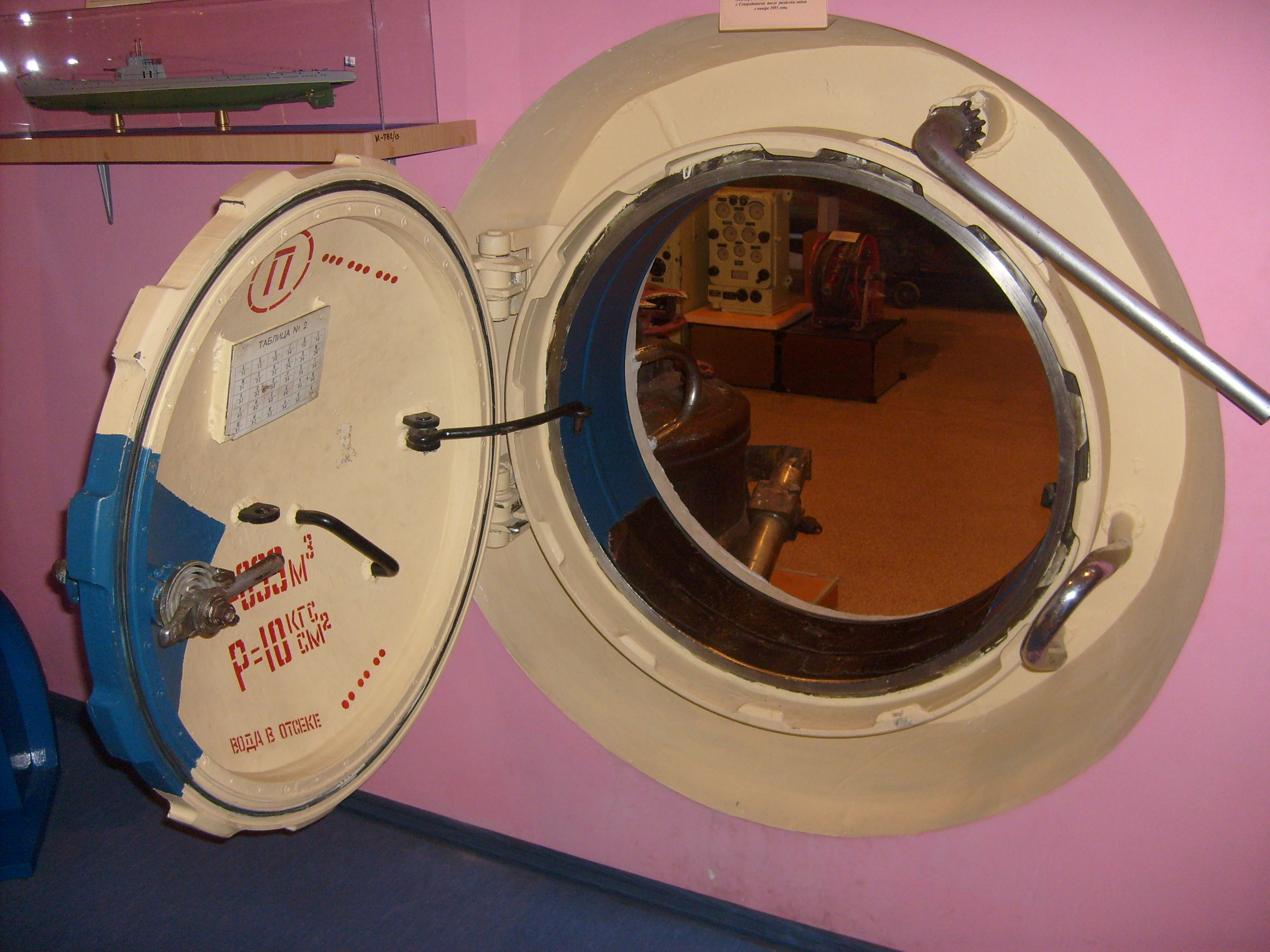 Люк с настоящей подлодки в музее Маринеско